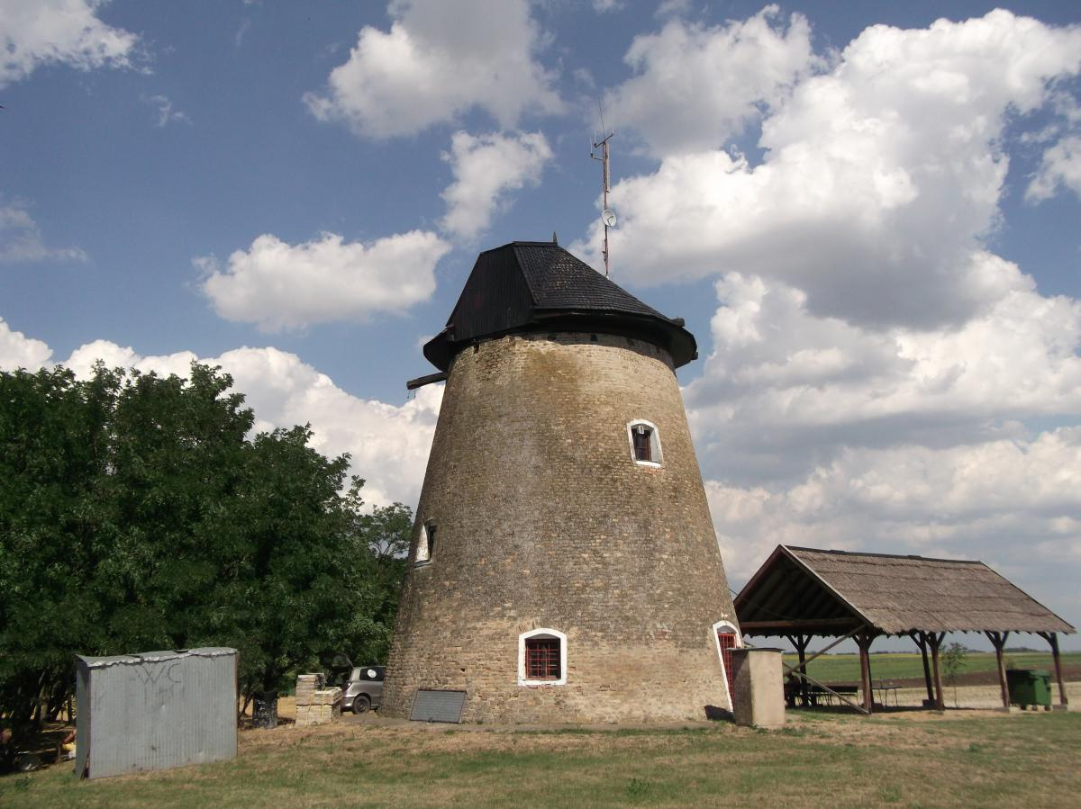 vetrenjaca orom